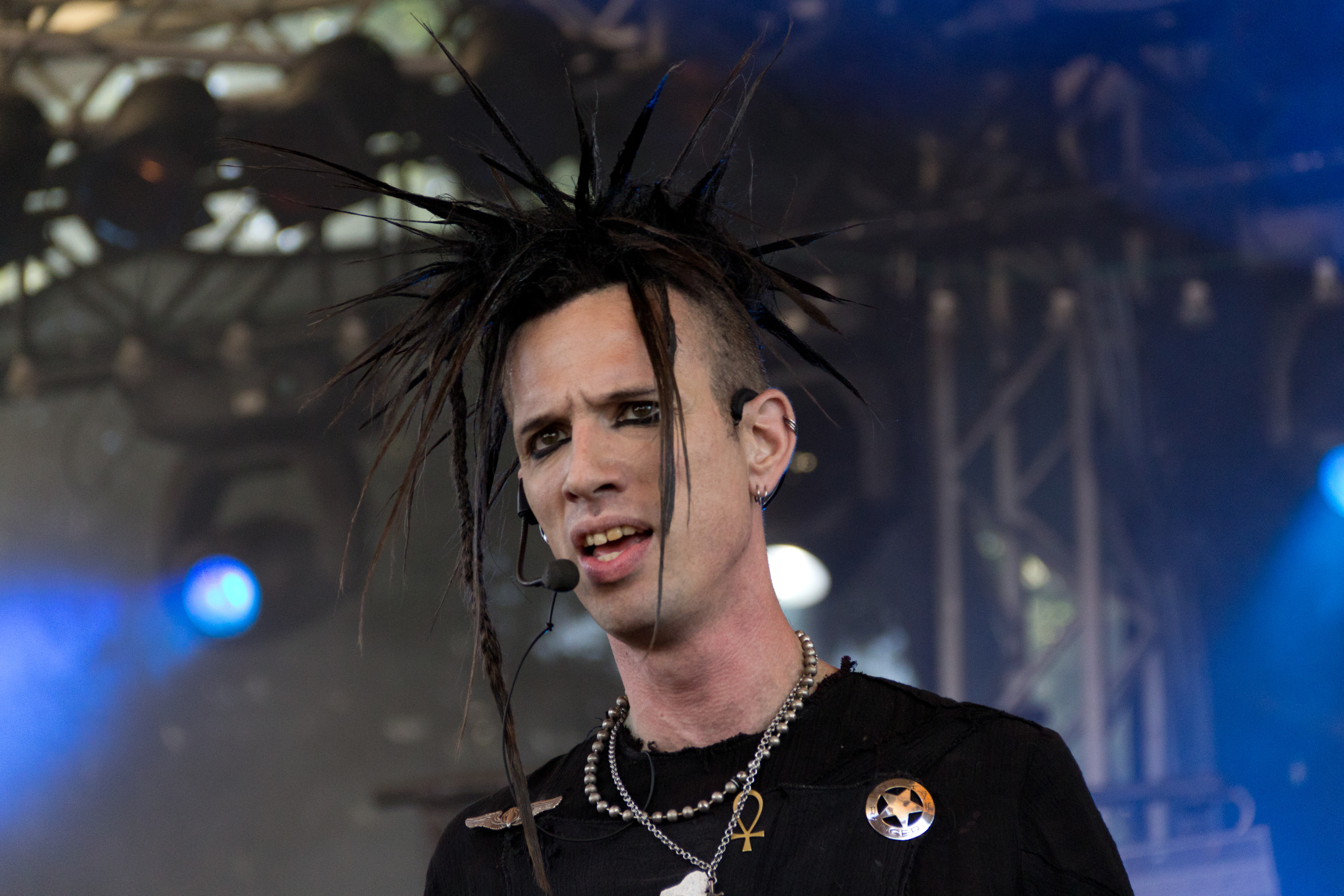 The Crüxshadows 12